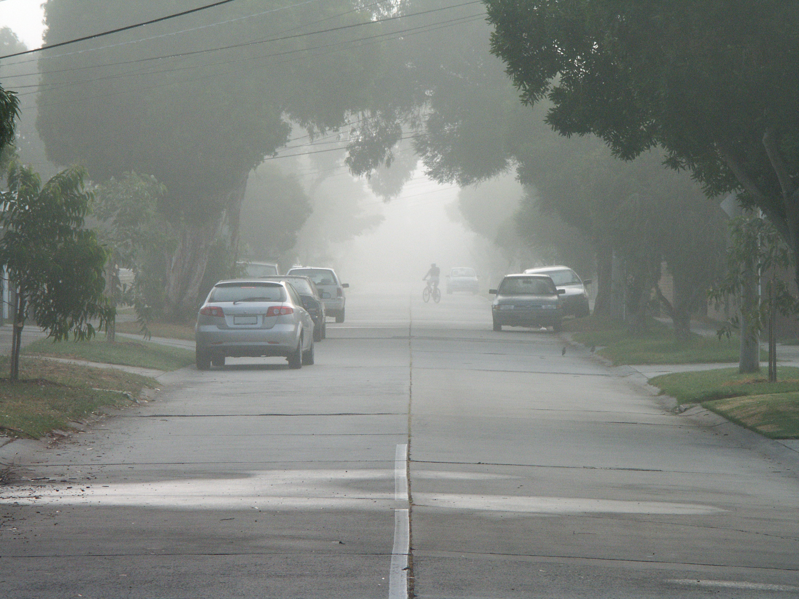 Light fog reducing visibility in suburban street